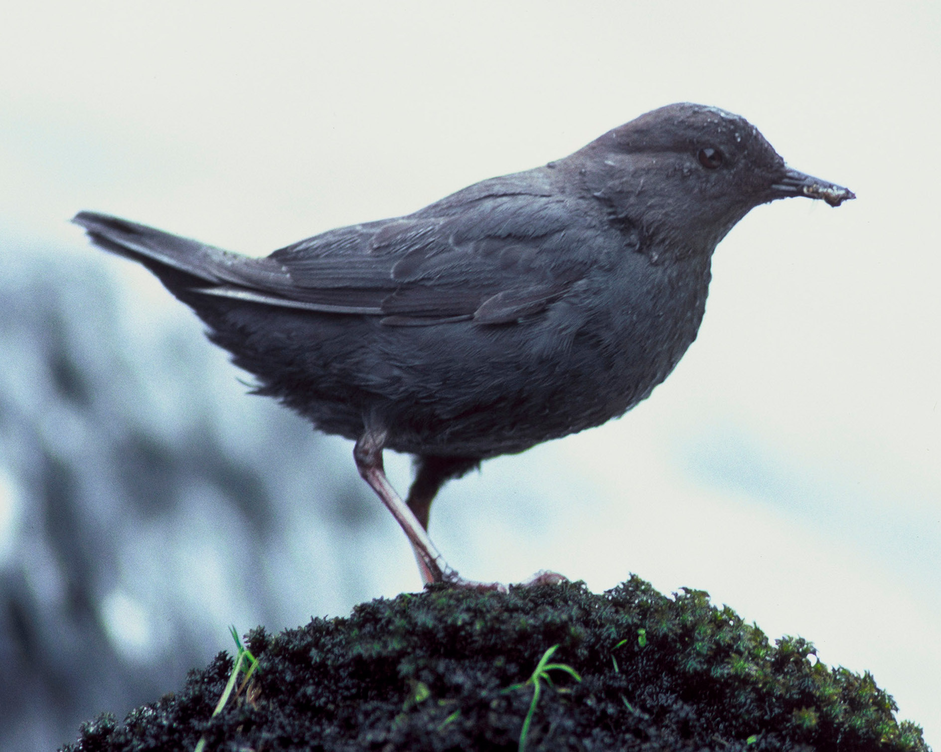 American dipper photographed on Kodiak Island